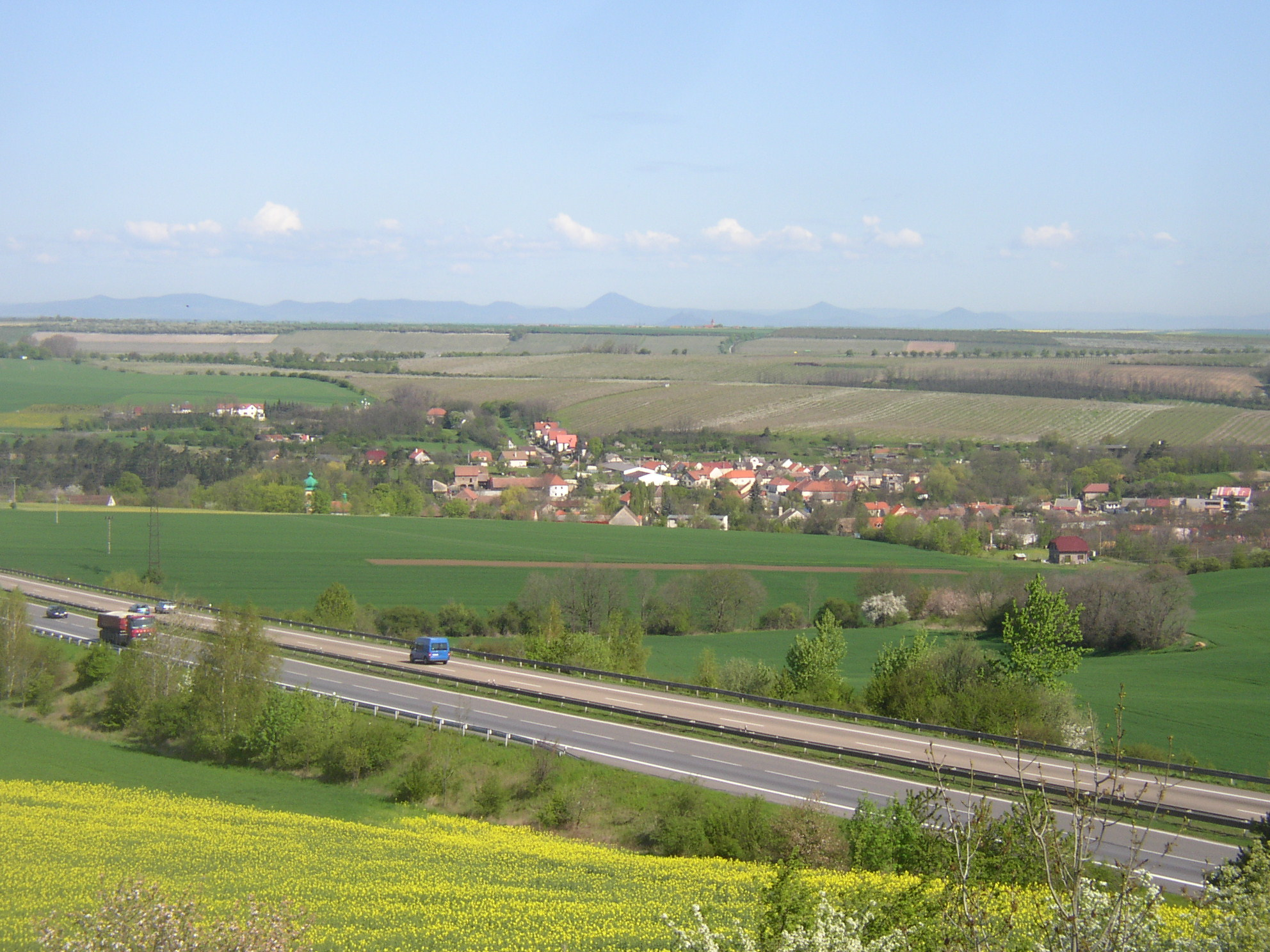 Village of Knovíz, Kladno District, Czech Republic, as seen from the south. In the foregrund Expressway R7 from Prague to Slaný, on the left edge of the village green tower of All Saints church. Large apple orchards covering most of the area beyond the village appear in brown colour. On the horizon mountains of the České středohoří in distance of about 40 km.